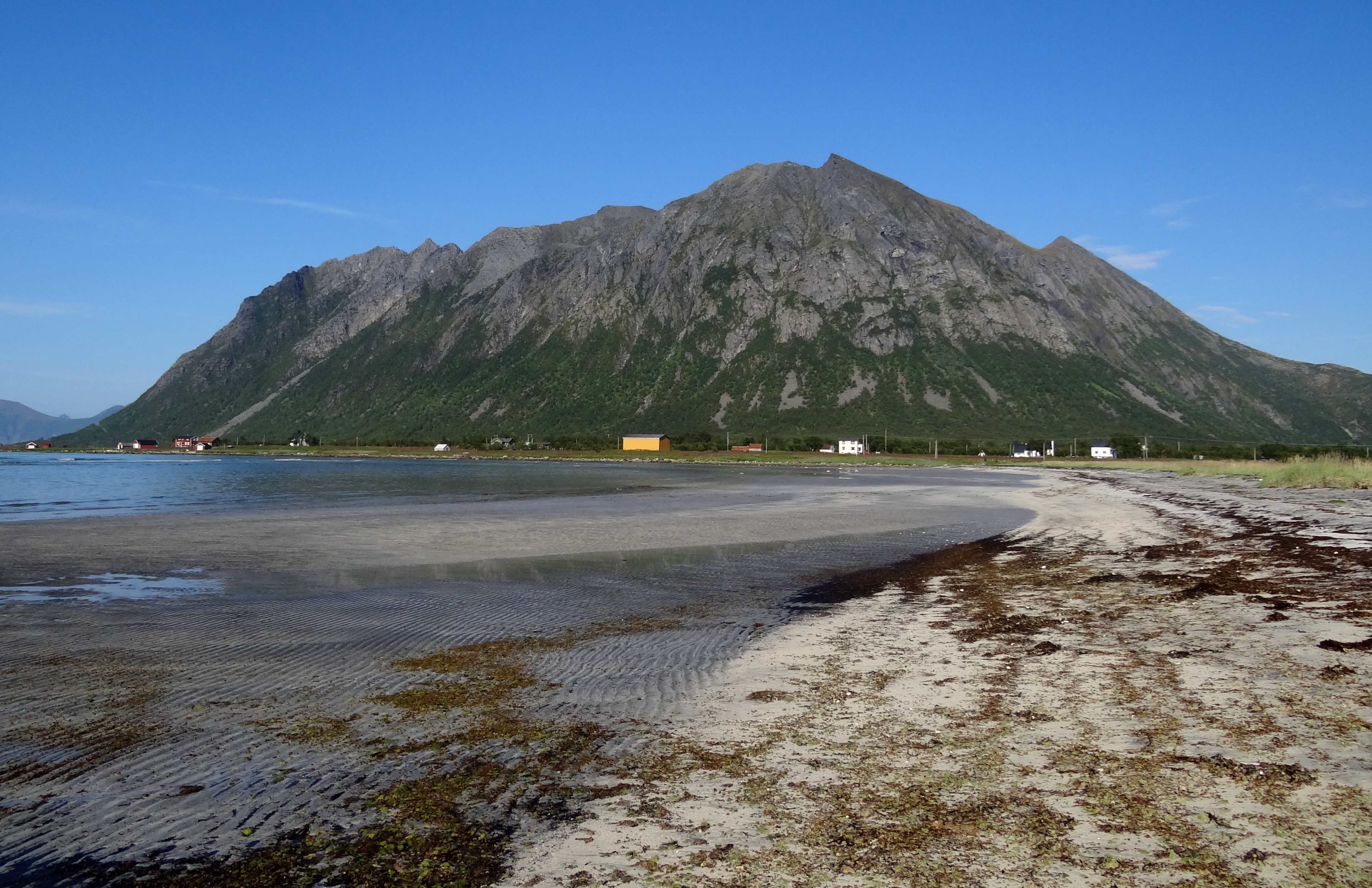 The village of Ballesvik at the foot of the Helland mountain.